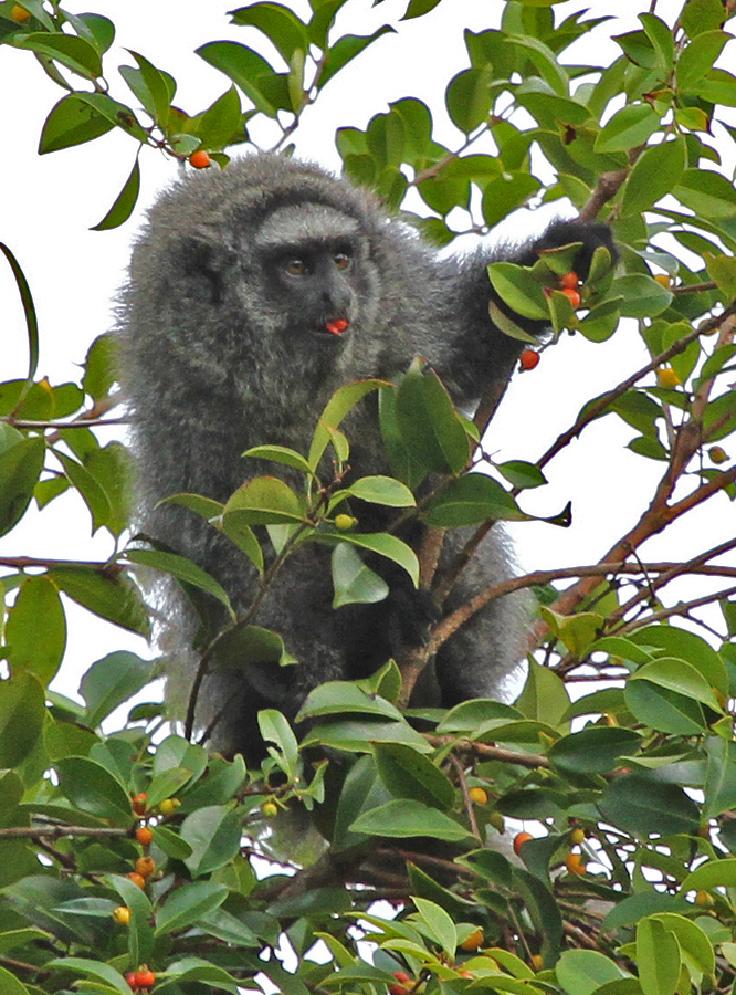 Callicebus melanochir (Wied-Neuwied), Brazil, Bahia, Cumuruxatiba.